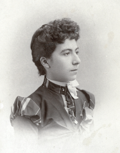 Cabinet card image identified in the auction catalog as Josephine Sarah Marcus, common-law wife of Wyatt Earp, but may be Big Nose Kate (Mary Katherine Horony-Cummings), common-law wife of Doc Holliday. Image by C. S. Fly.